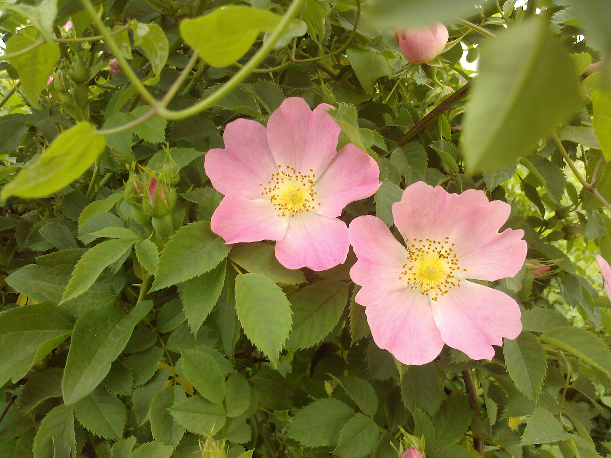 Dog Rose (Rosa canina)